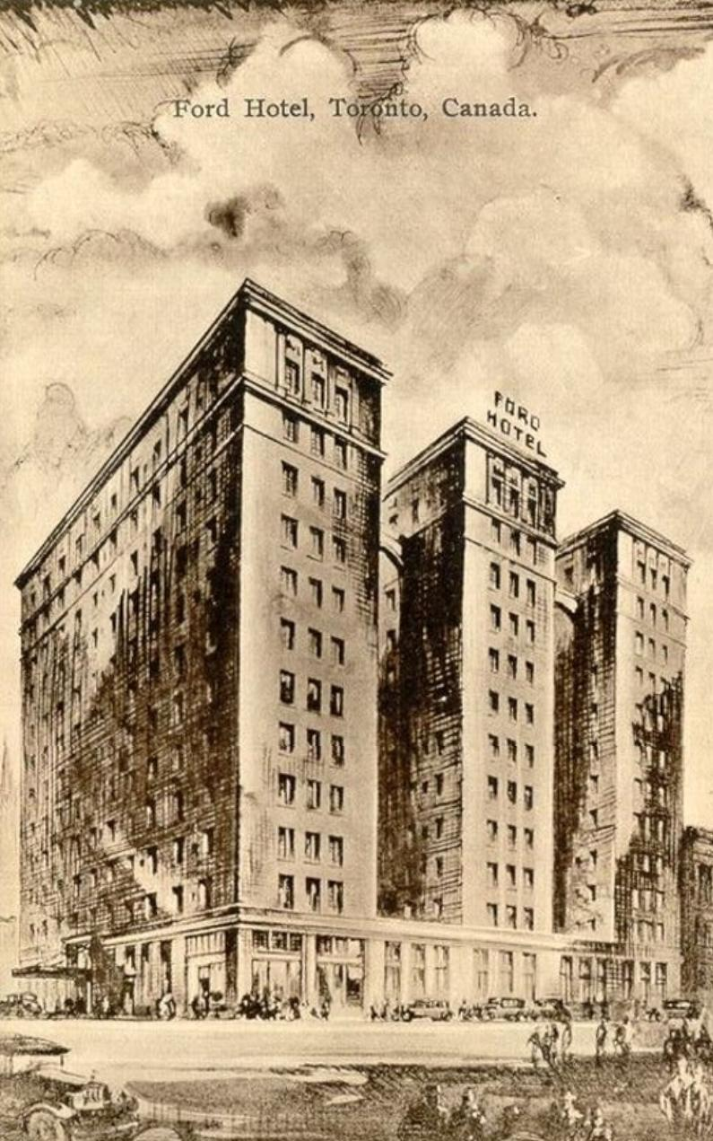 Postcard of the Ford Hotel, on the northeast corner of Dundas and Bay Streets, in Toronto, Canada.